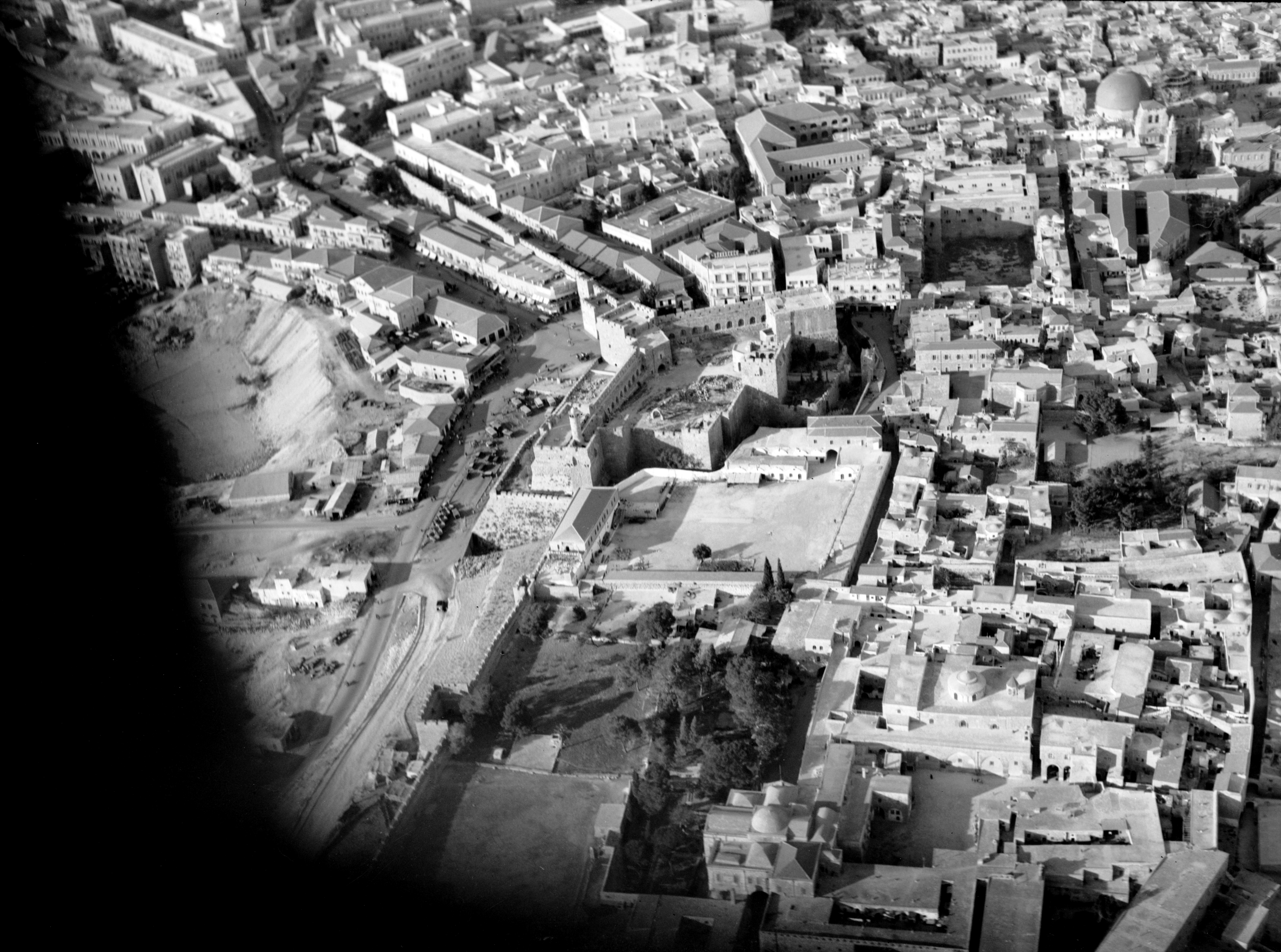 Air views of Palestine. Jerusalem from the air (The Old City). Jerusalem. The Tower of David. Intimate view within the city walls looking N.